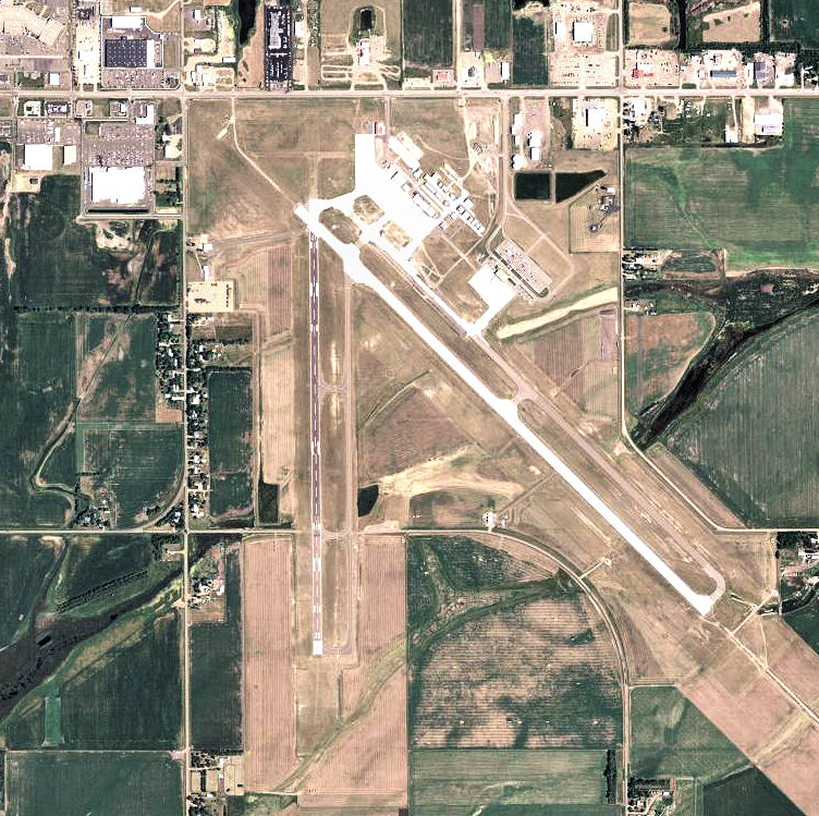 USGS digital orthophoto of Aberdeen Regional Airport - South Dakota